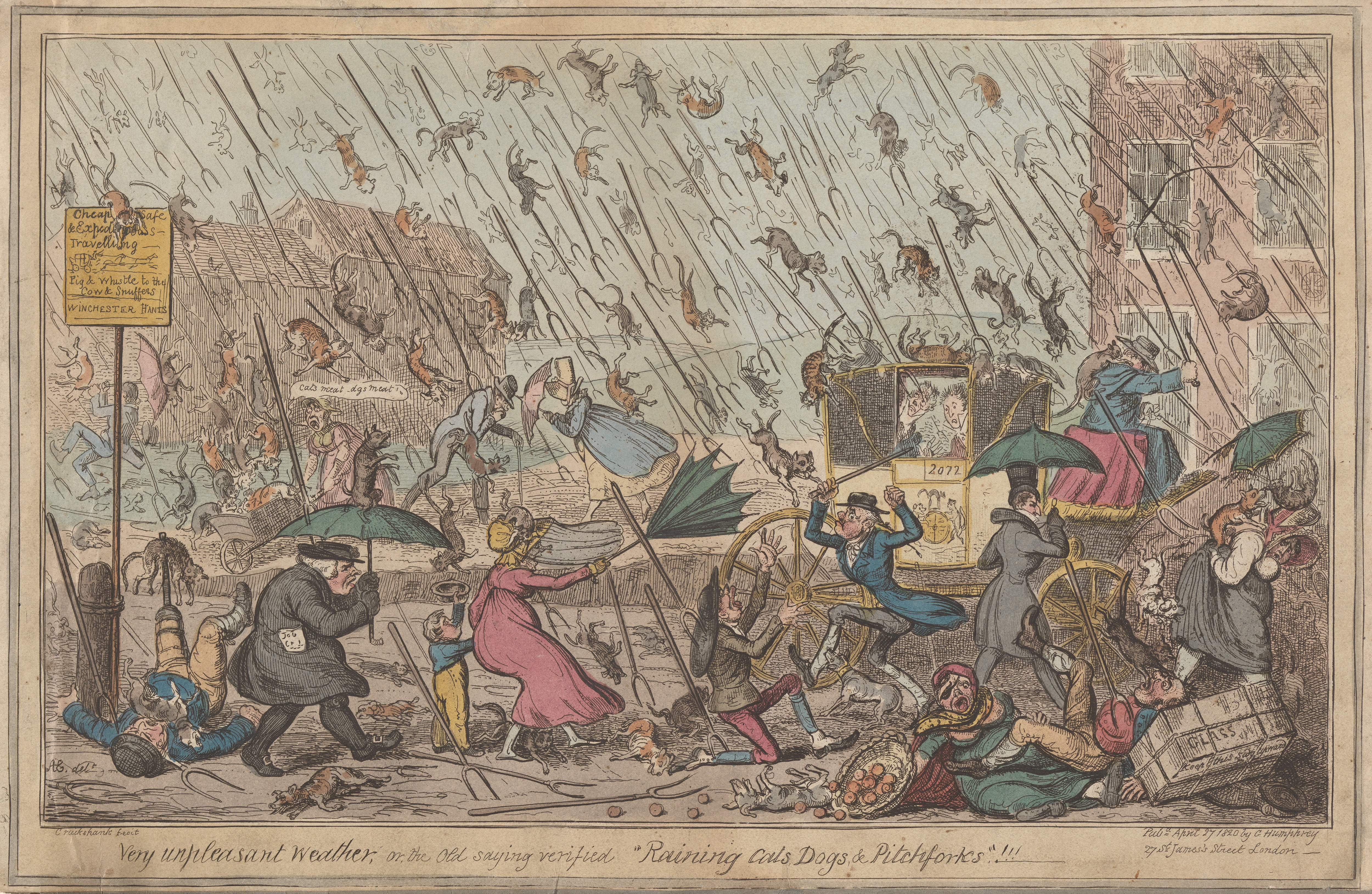 Very unpleasant Weather, or The old saying verified "Raining Cats, Dogs & Pitchforks"!!! An etching by George Cruikshank. Shown is a busy street full of people being bombarded by cats, dogs, and pitchforks falling from the sky. In the background a street vendor with a wheelbarrow is crying out "Cats' meat, dogs' meat!"